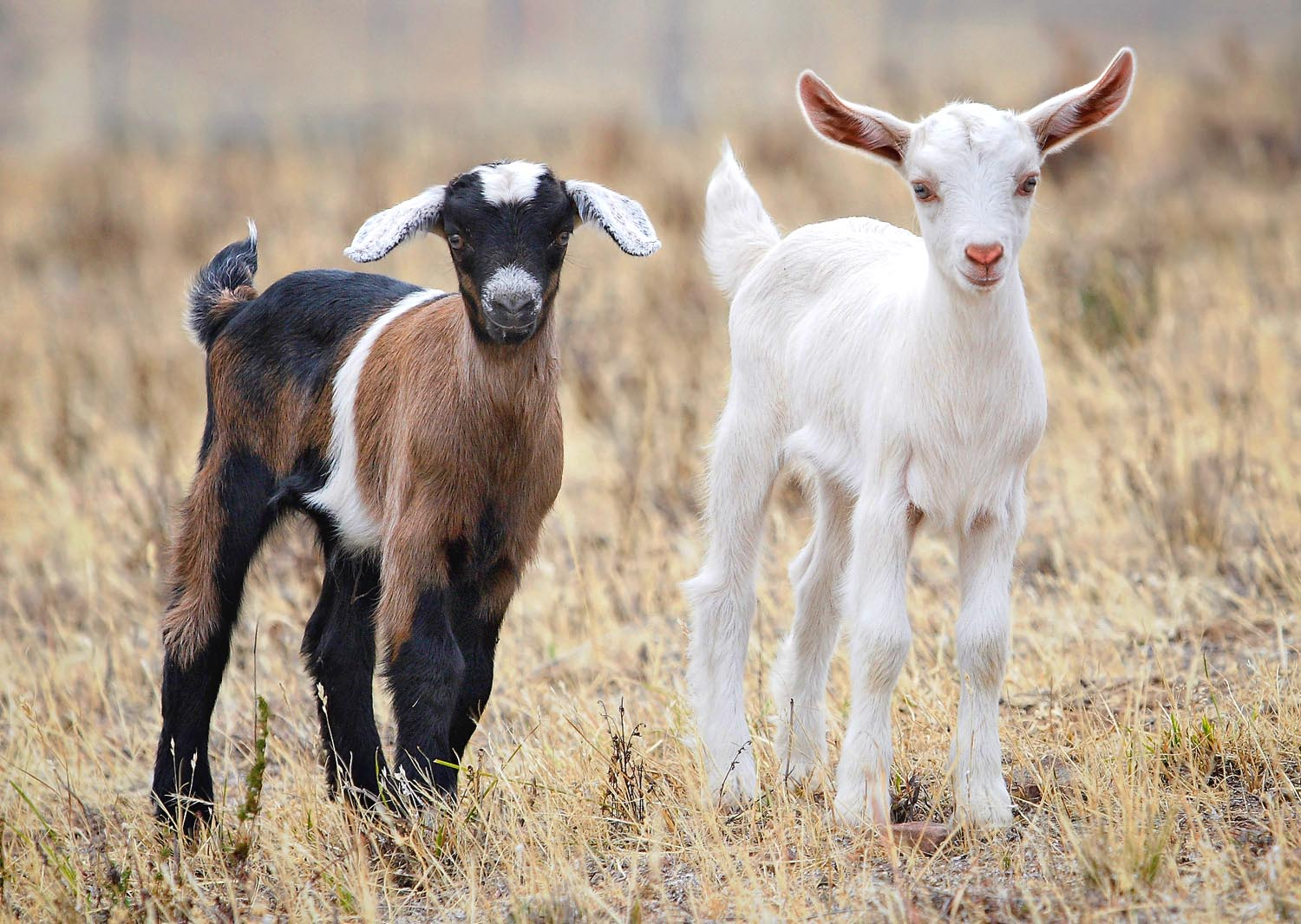 Taken in Swifts Creek, Victoria in January 2007.